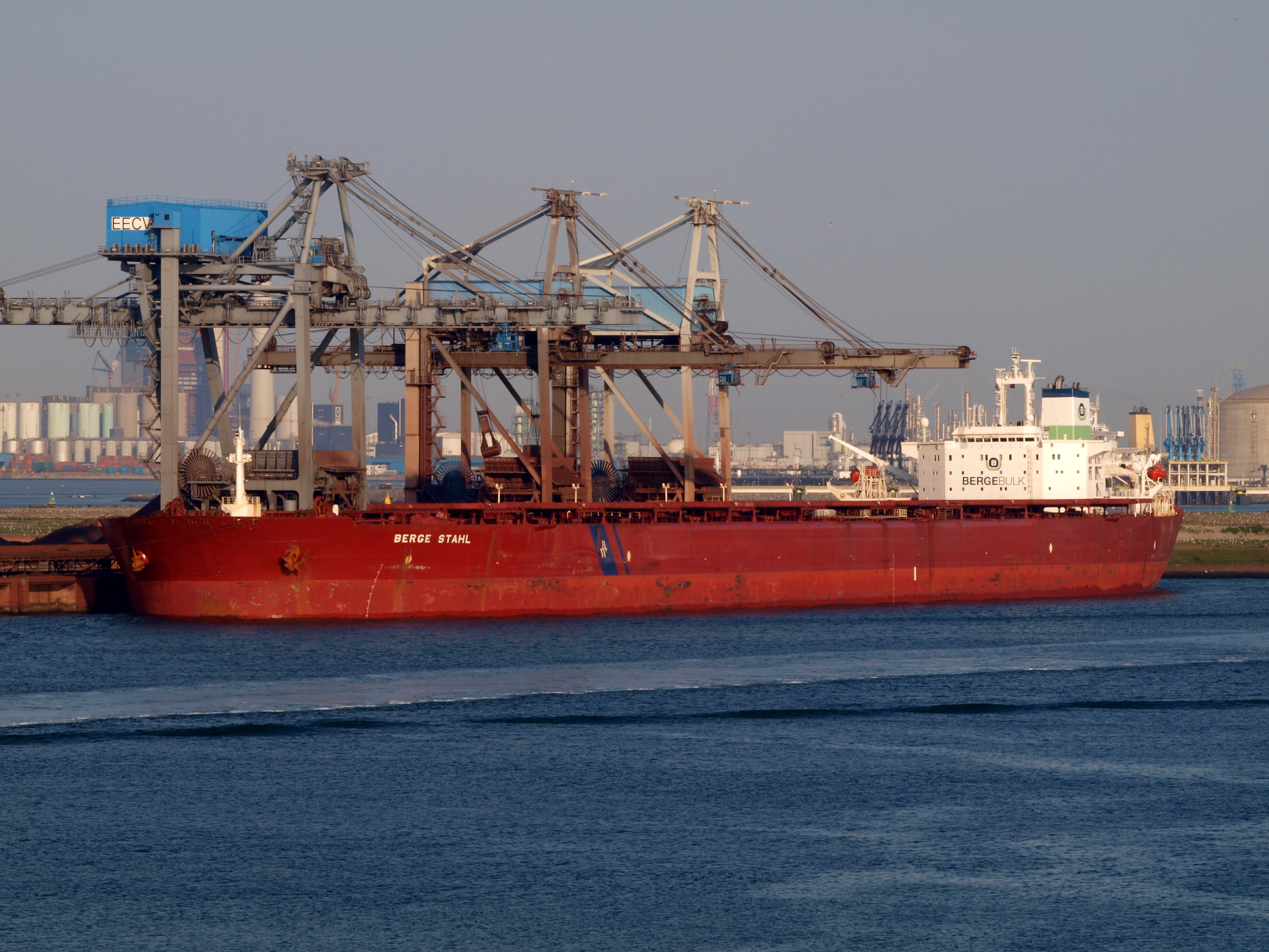 Back in Rotterdam after reviced in China, i believe.